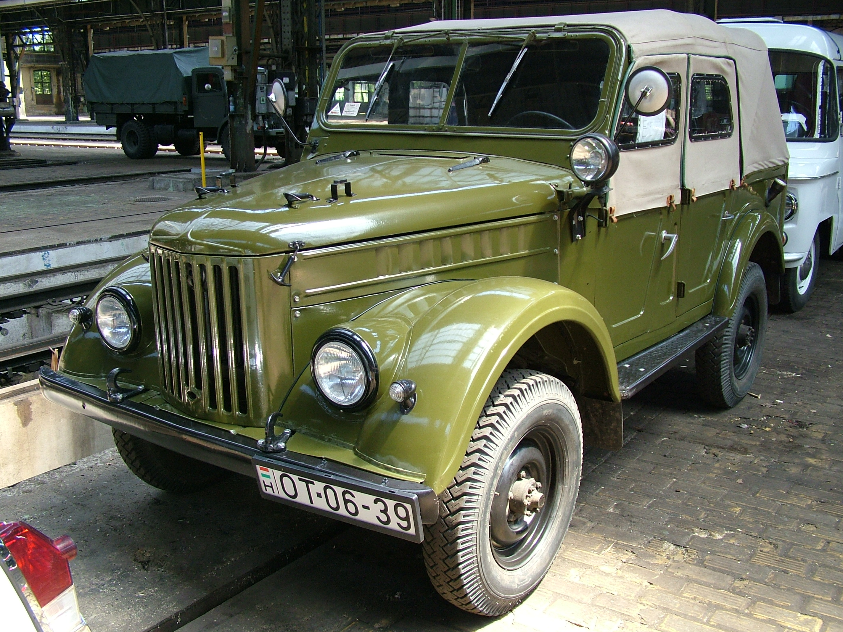 UAZ-69A during II. Vasút - Vasútmodell és Technikai Modell Fesztivál.